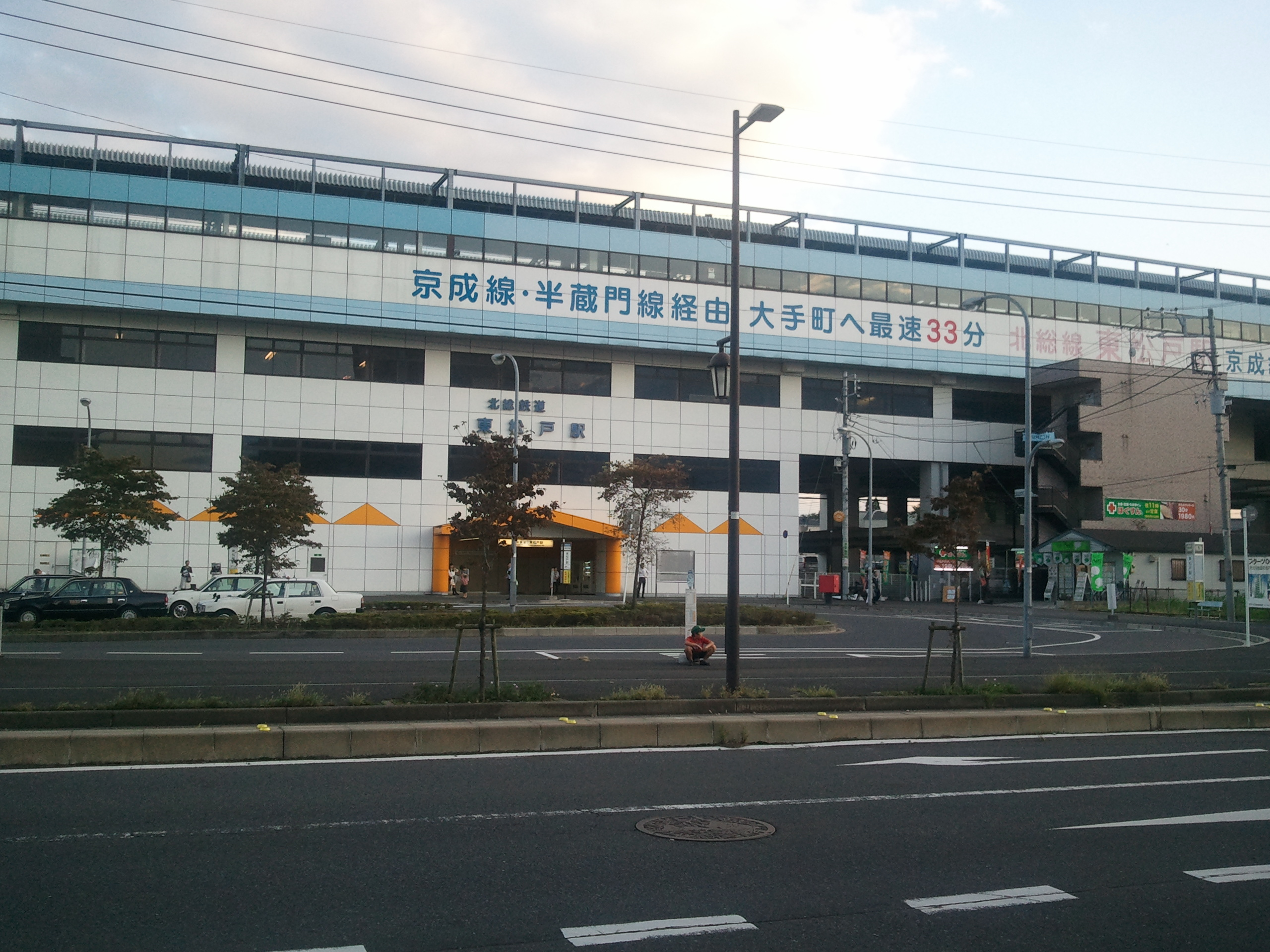 Higashi-Matsudo Station on the Hokuso Line